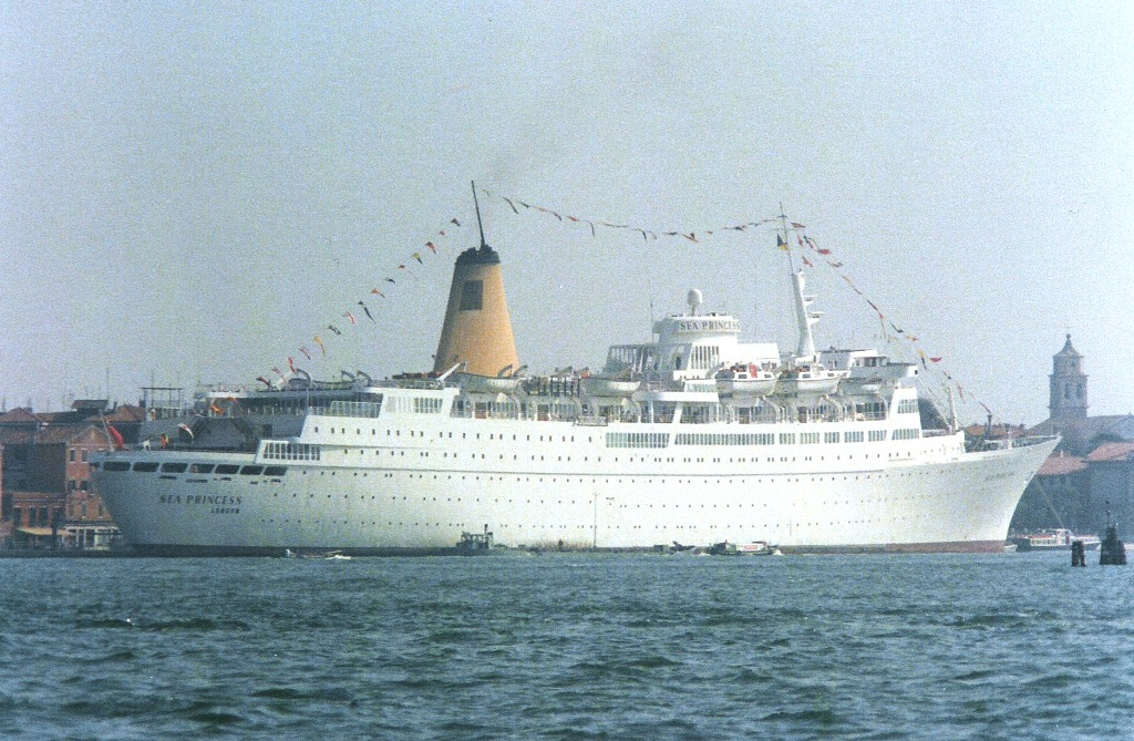 Sea Princess,Venice IMO: 6512354 Former names: 1966—1979: Kungsholm 1979—1995: Sea Princess 1995—2002: Victoria 2002—2007: Mona Lisa 2007—2008: Oceanic II 2008 onwards: Mona Lisa For another Sea Princess see IMO 9150913 Information about Sea Princess may be found at IMO 6512354. A ship can change name and flag state through time, but the IMO number remains the same through the hull's entire lifetime. As a result, it can be useful to identify a ship by using the IMO number.